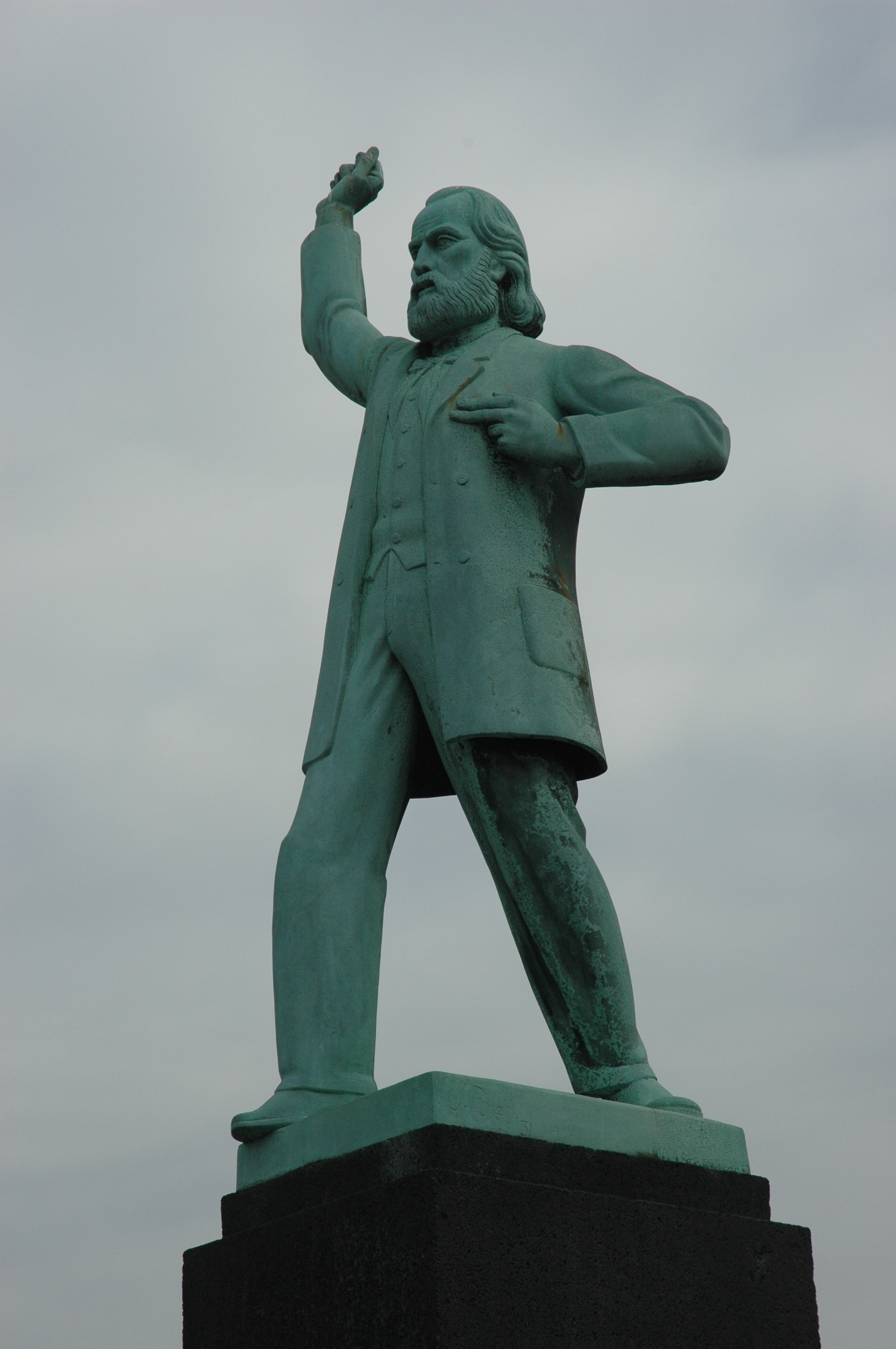 Statue of Dutch revolutionary preacher Ferdinand Domela Nieuwenhuis (1931) by Johan Polet, Amsterdam, Nassauplein